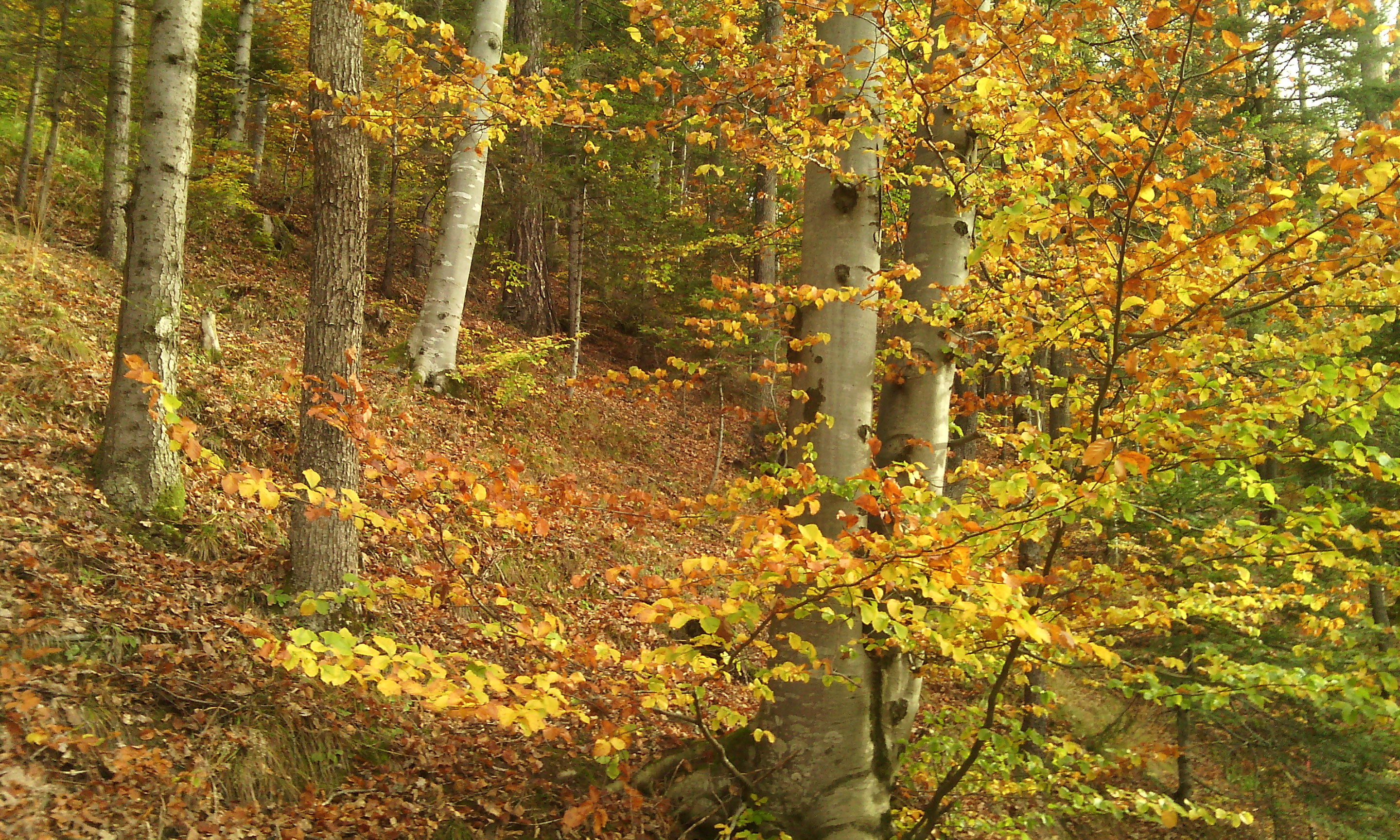 Autumn in the Mountains Postăvarul (mixed forest)